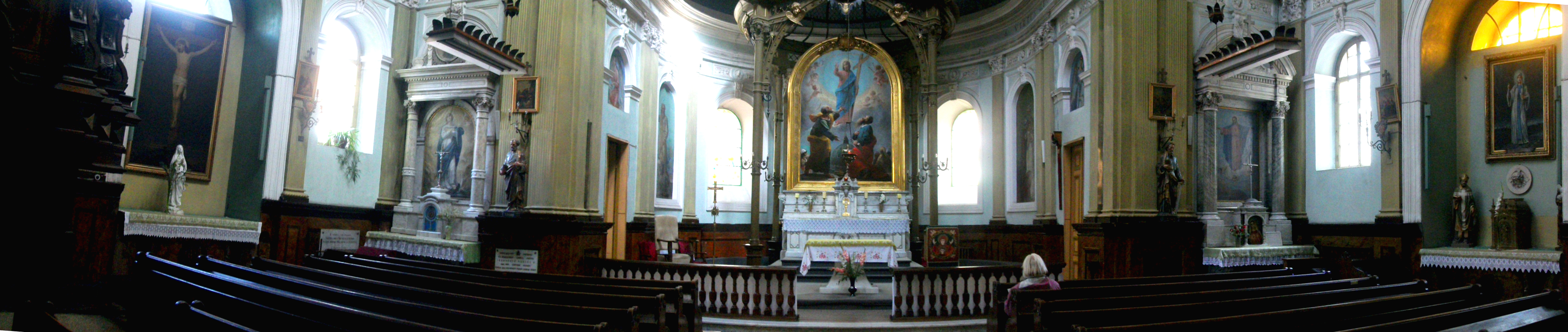 Tbilisi St. Peter-Paul Catholic Church